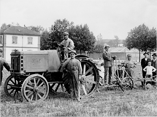 Presentation of tractor FIAT 702, in 1918, with demonstration of plowing in the parade ground of Turin, now Crocetta district.